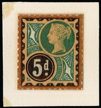 1885 5d Jubilee? Essay. Very fine hand painted example in blue green, deep brown & ochre with details of the design highlighted in Chinese white, affixed to a piece of white card (31 x 34mm) Unique.